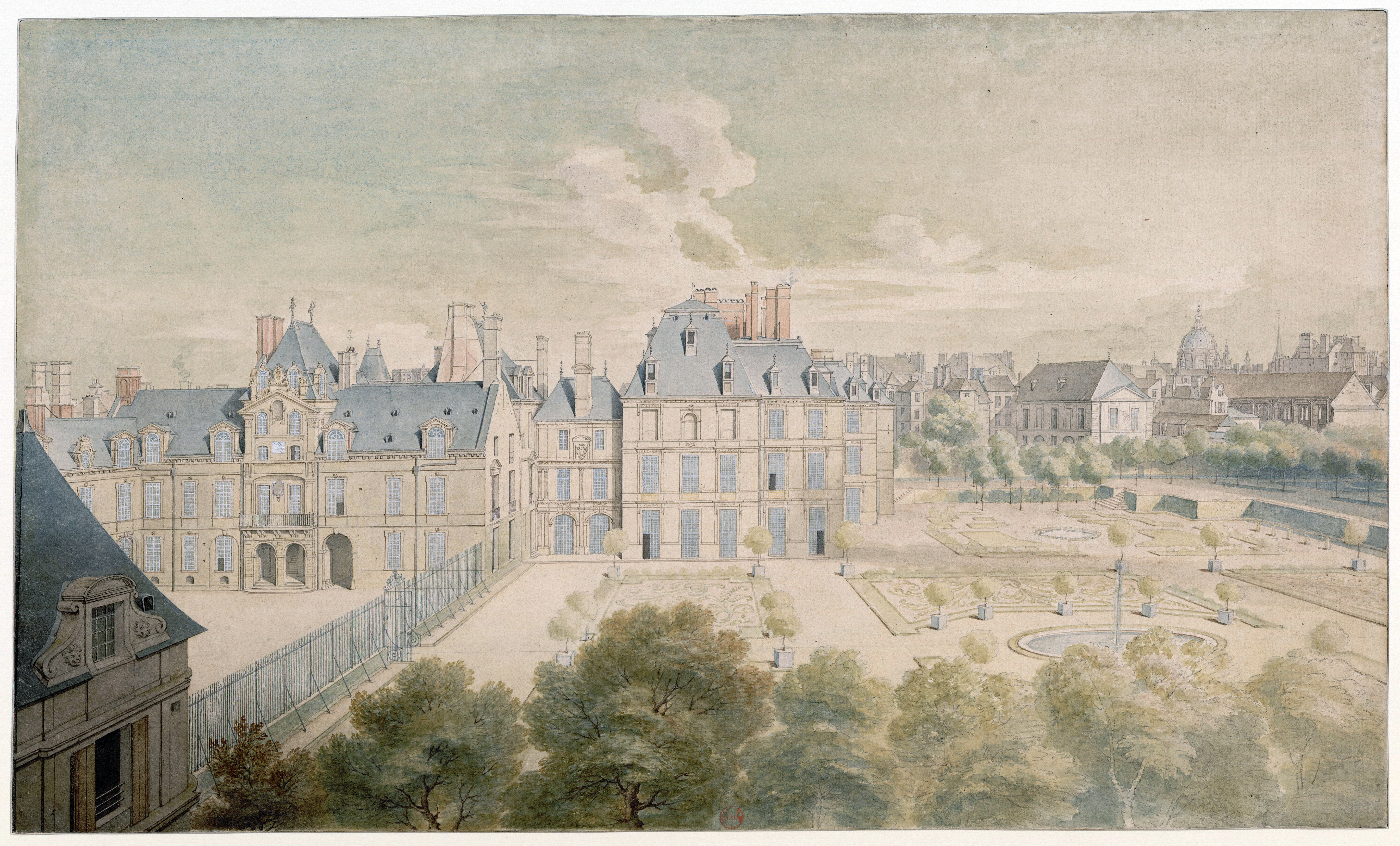 View of the gardens of the Hôtel de Condé, looking east from the rue de Condé. The cour d'honneur is to the left of the iron fence.